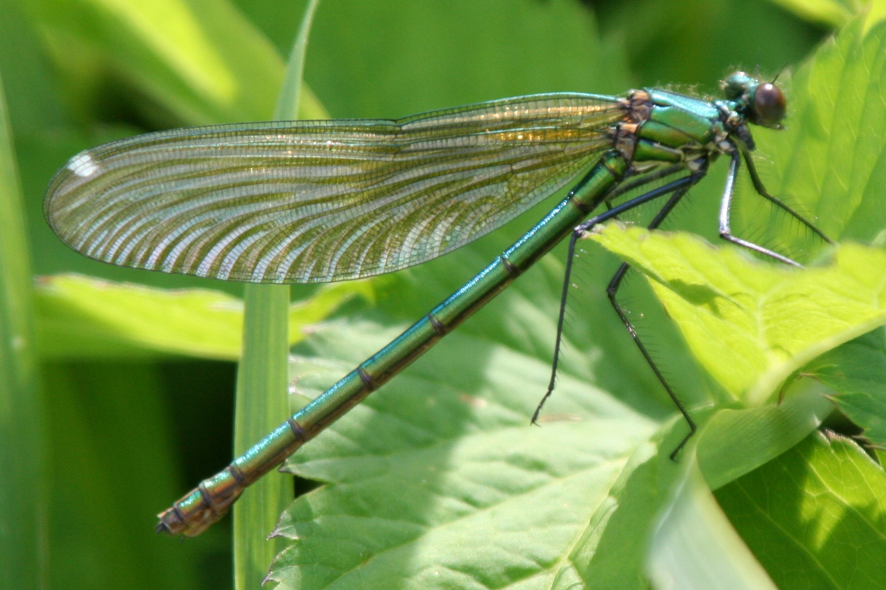 A female of the Banded Demoiselle damselfly, photographed in Wertheim-Bronnbach at the Tauber river